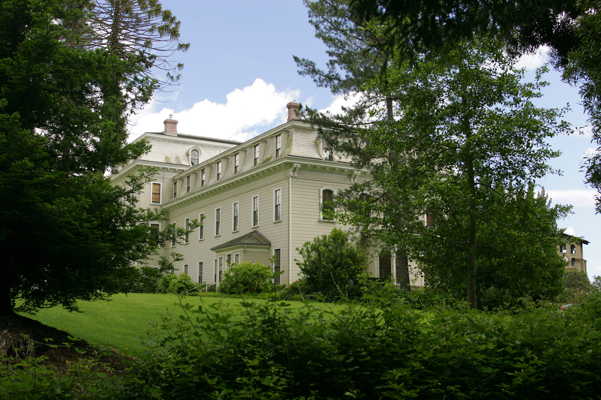 Copyright owner: Mills College